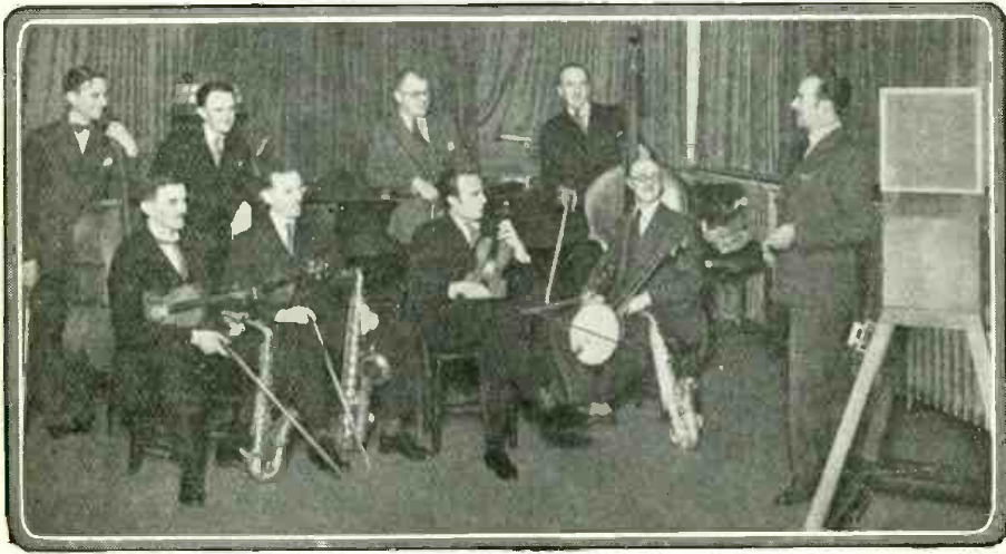 From the BBC Hand Book 1928. MR. EUGENE CRUFT AND HIS OCTET Often heard and always enjoyed by listeners to programmes of popular music